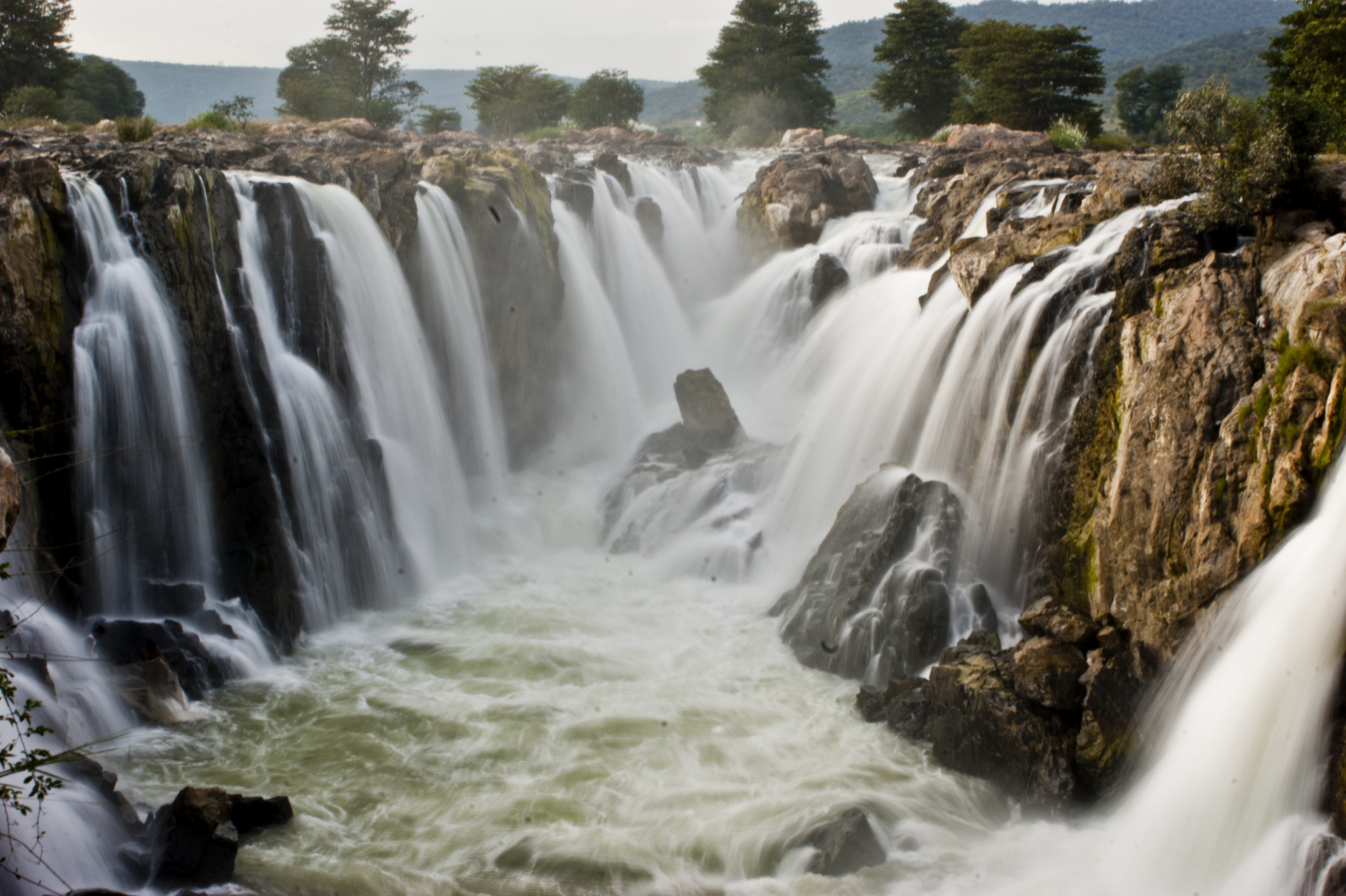 Hogenakkal Falls Tamil Nadu